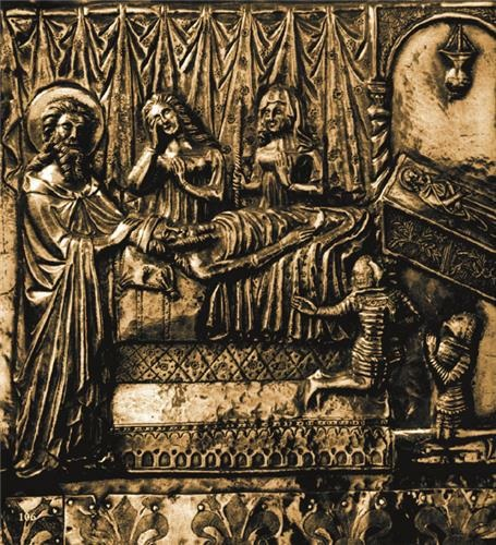 Stephen II (or I,if his father appears Stephen Kotroman I) Kotromanic on deathbed. In front two women are crying (maybe his daughters, Elizabeth and Catherine?).